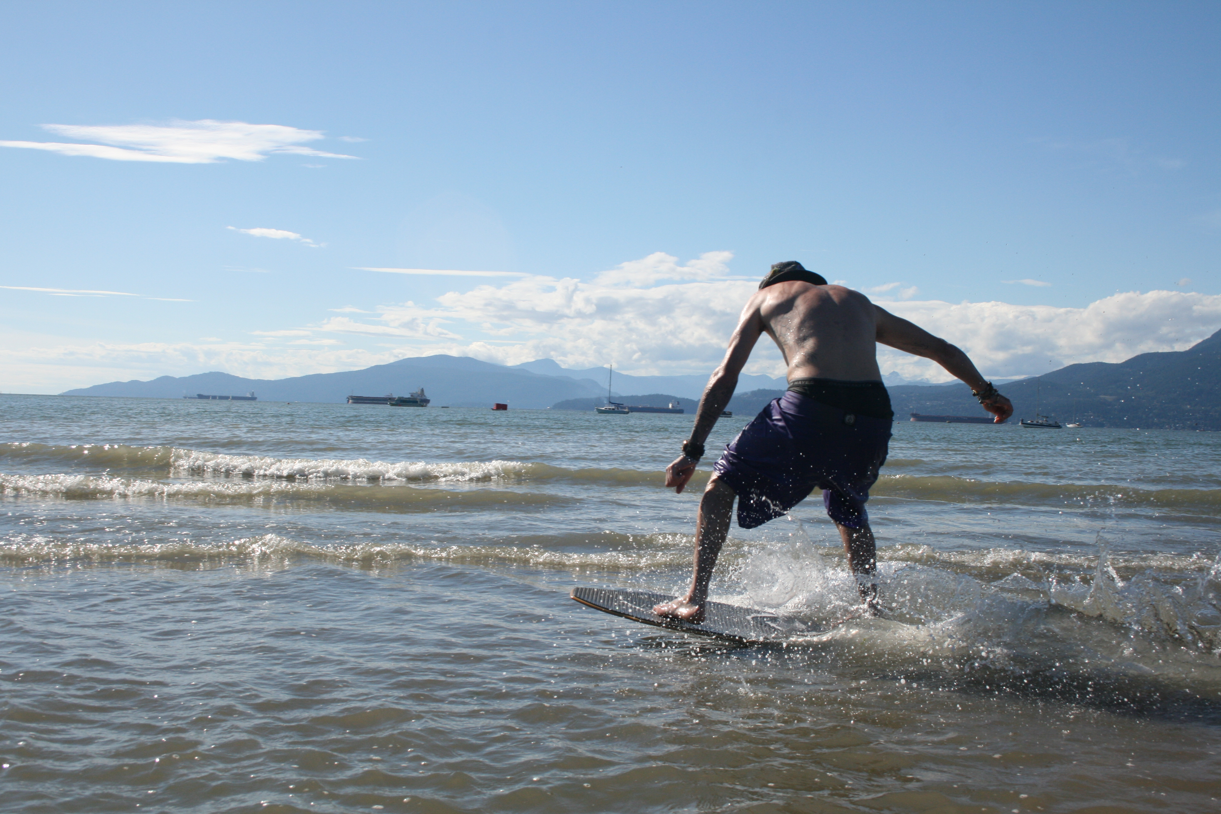 Where the living is easy